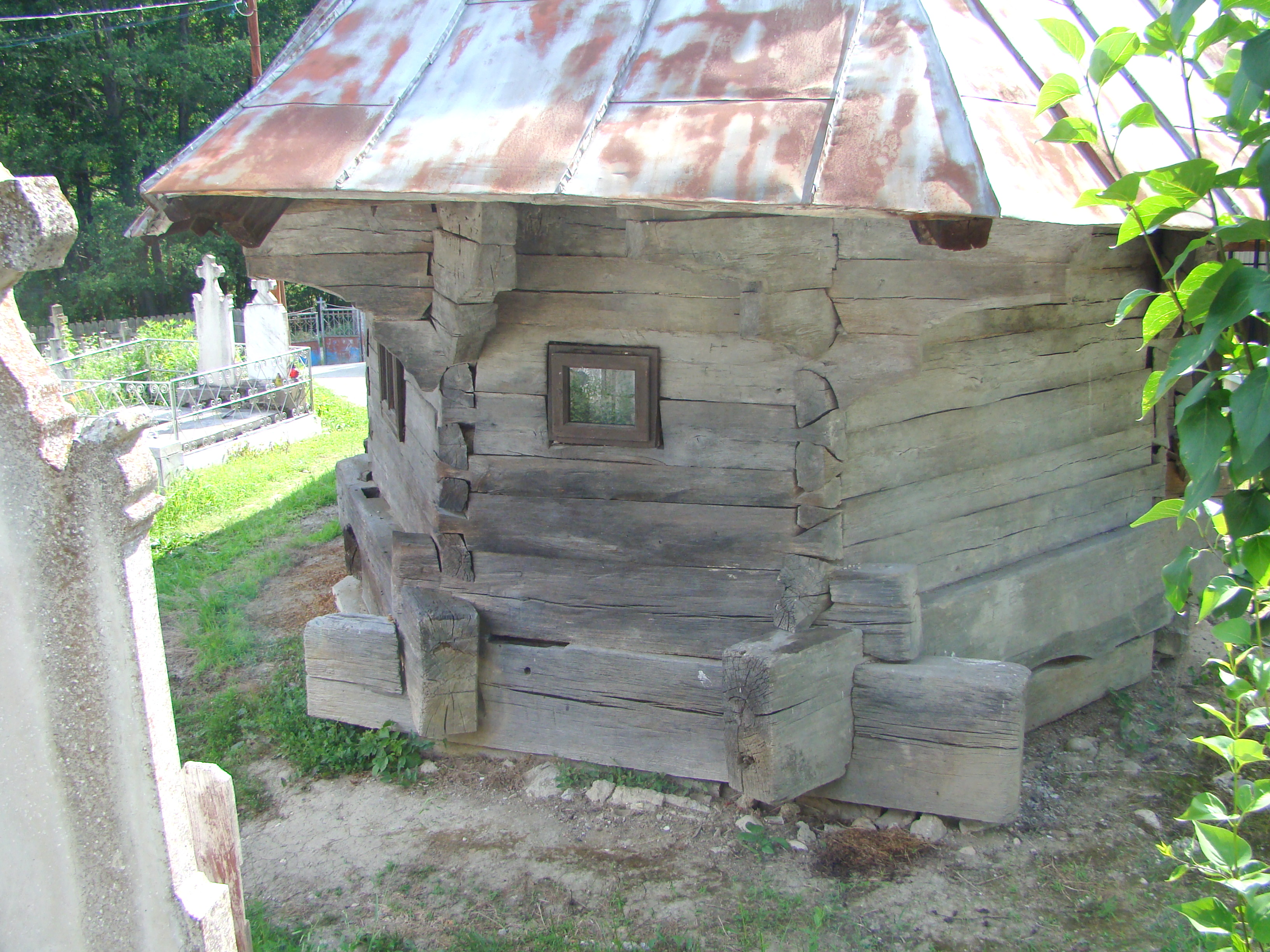 Wooden church in Brătuia, Gorj county, Romania